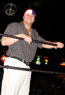 Eric Perez at an FCW show is Ft Myers Florida Photo by Rob Beukema